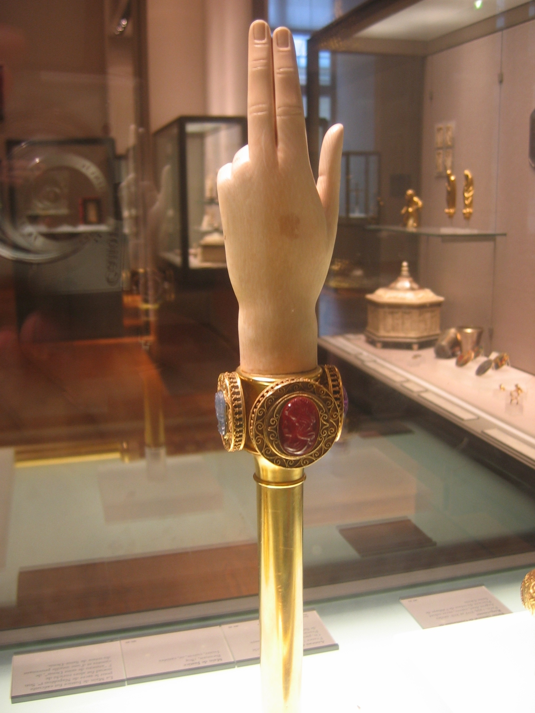 Hand of justice, made for the crowning of Napoléon I, including the so-called ring of St. Denis from the Treasure of Saint-Denis. Ivory, copper, gold and cameos, 1804 .